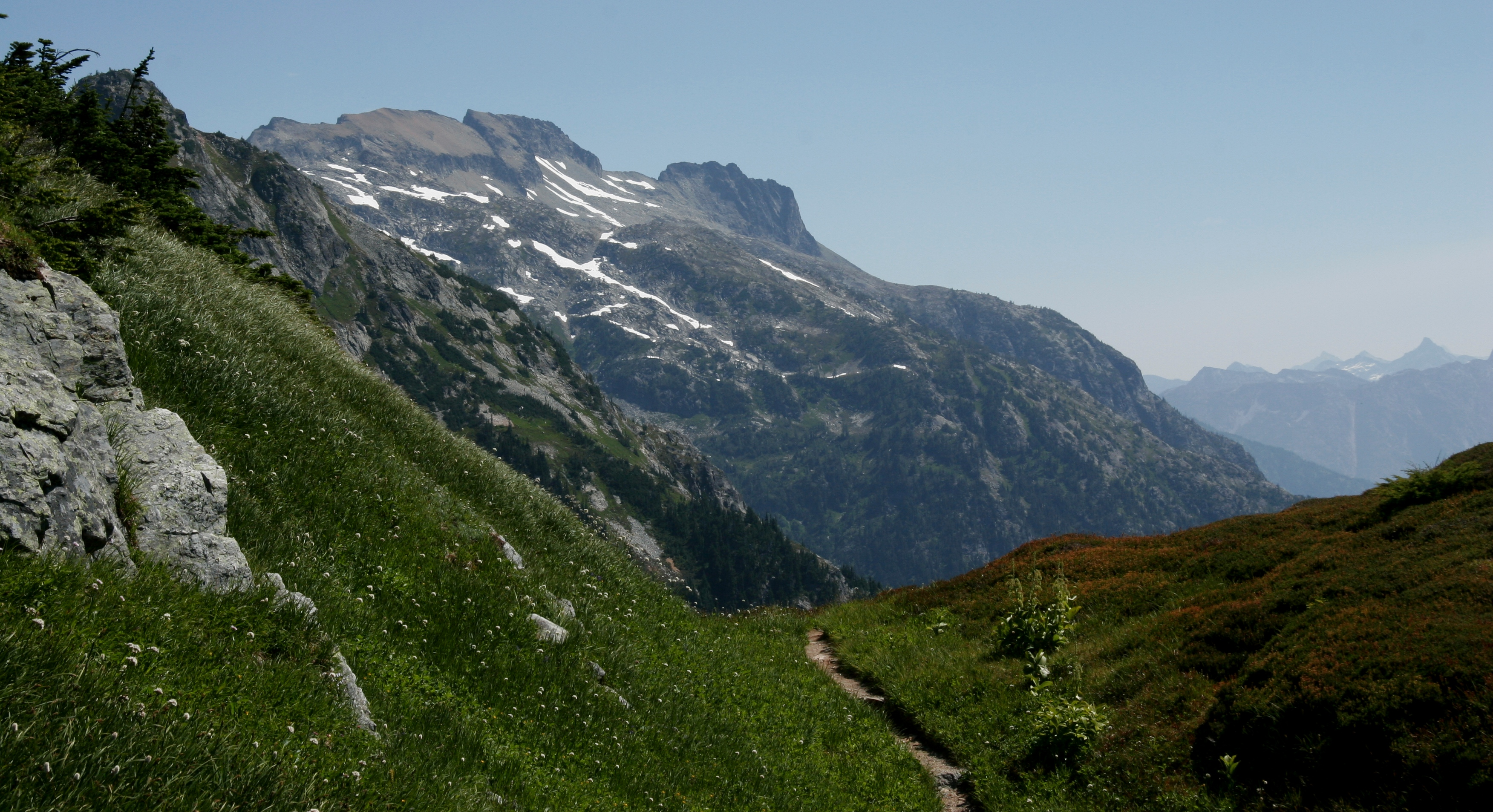 Booker Mountain seen from Sahale Arm. North Cascades National Park